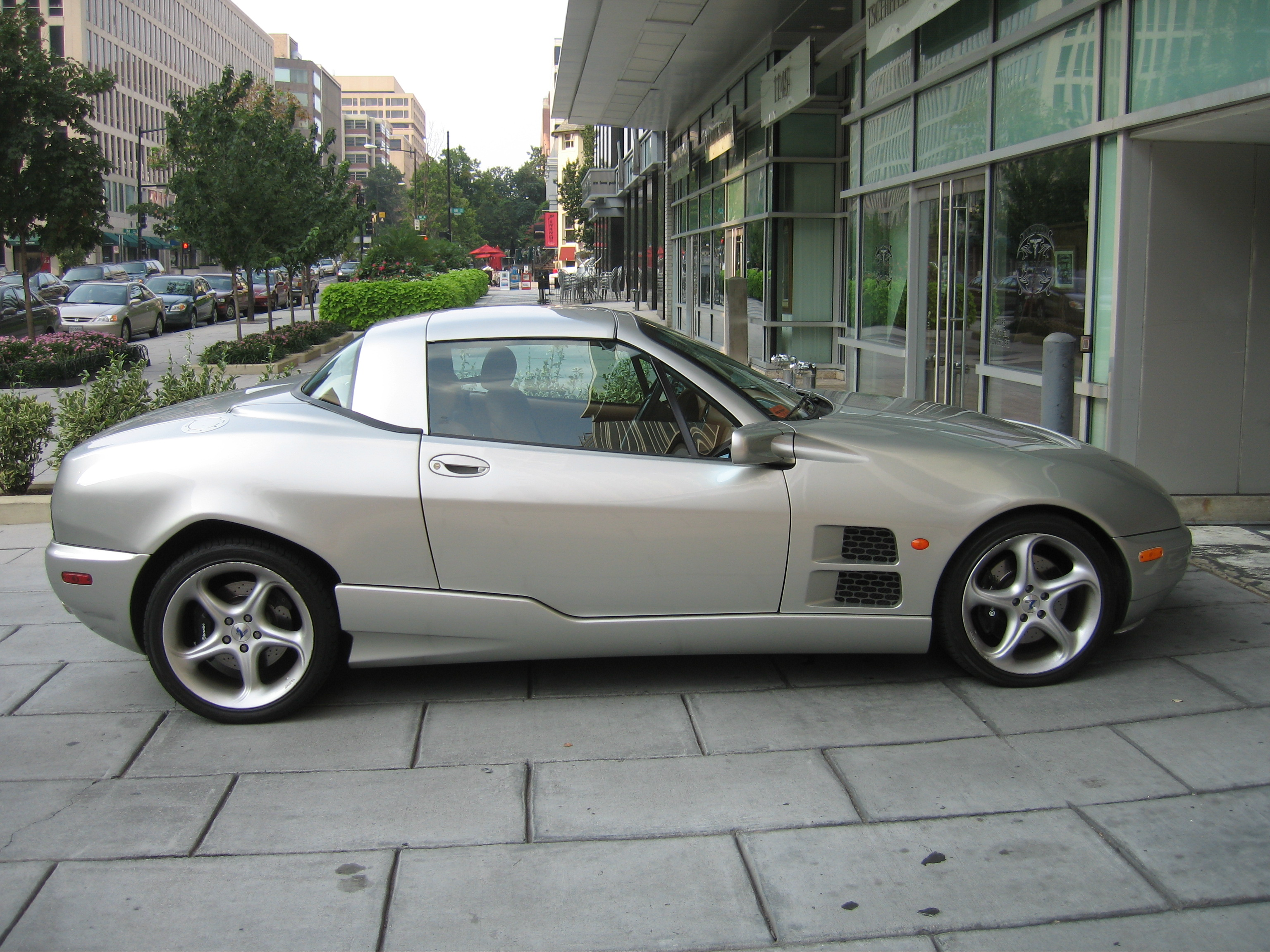 A silver Qvale Mangusta, parked, shown from the side with the roof closed.